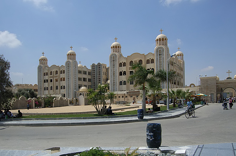 Building for accomodation and administration, Deir Abu Mina, Egypt